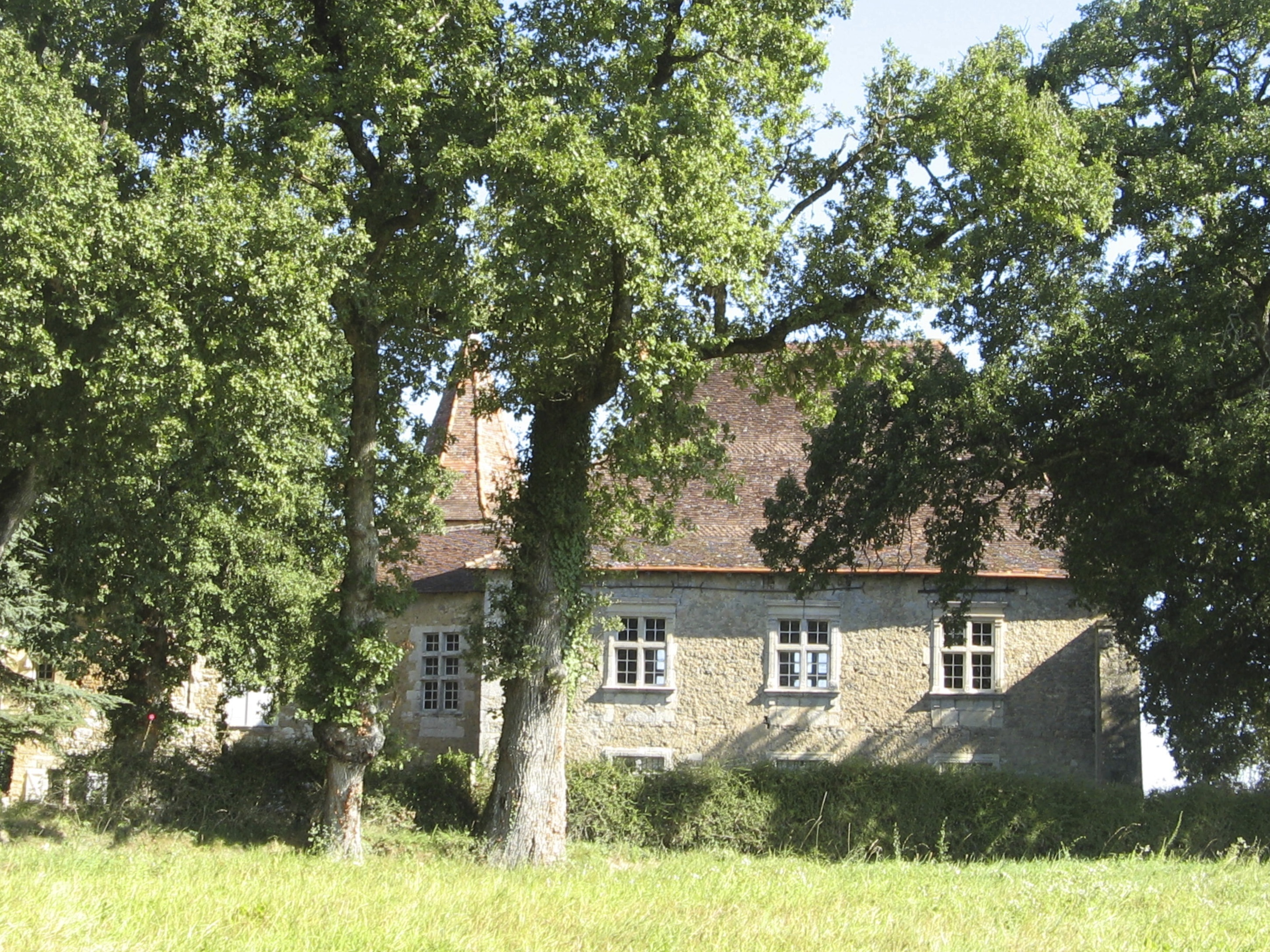 Château de Léberon located off the D931 South of Condom, Department 32, (Gers). .